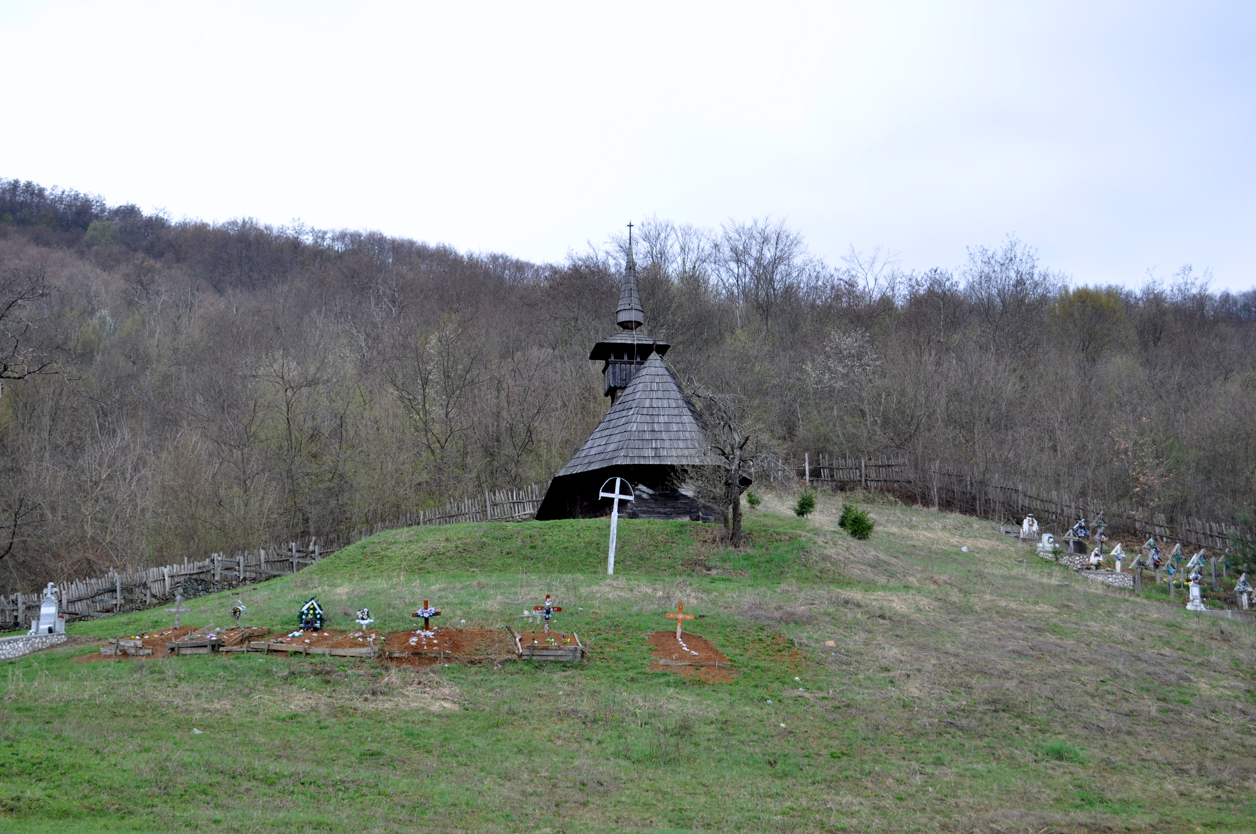 Troaș, Arad county, Romania